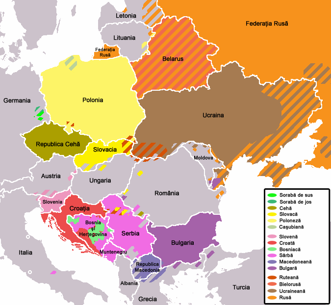 Map of Slavic languages in Romanian